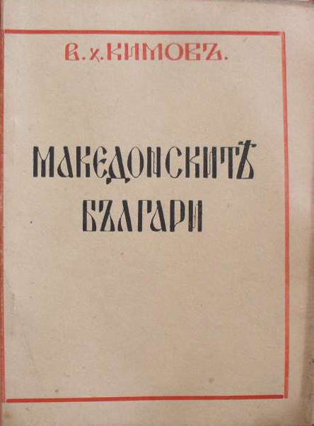 Cover of book "Macedonian bulgarians"